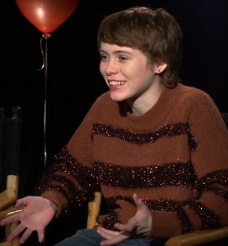 Sophia Lillis in a 2018 MTV interview